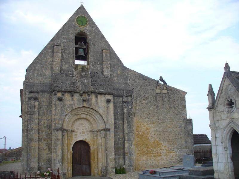 church of Saint Martial (Gironde)